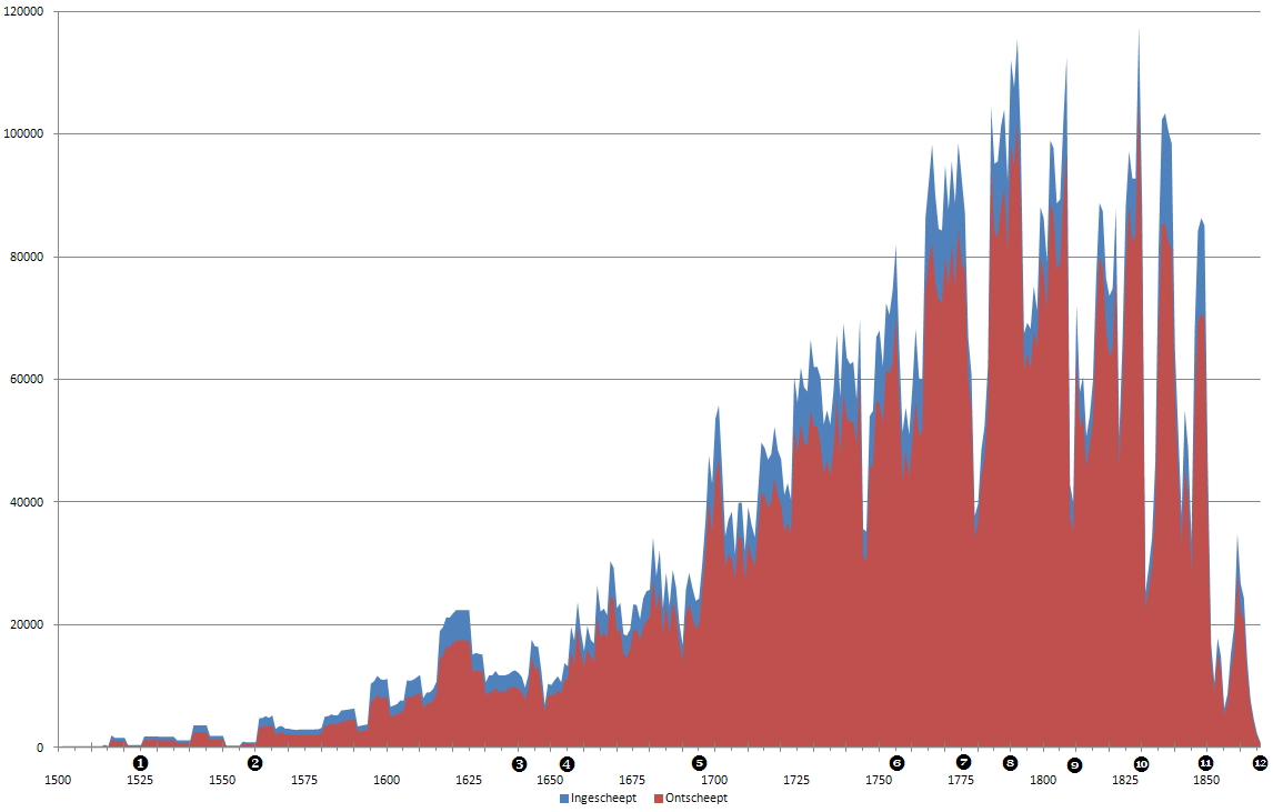 Estimated numbers of embarked and disembarked slaves in the Atlantic slavetrade. The data is from These estimates are about 25% higher than unadjusted numbers in the main database. Blue=Embarked. Red=Disembarked 1 1525 First slave voyage direct from Africa to the Americas 2 1560 Continuous slave trade from Brazil begins 3 1641 Sugar exports from Eastern Caribbean begin 4 1655 English capture Jamaica 5 1695 Gold discovered in Minas Gerais (Brazil) 1697 French obtain St Domingue in Treaty of Rywsick 6 1756 Seven years war begins 7 1776 American Revolutionary War begins 8 1789 Bourbon reforms open Spanish colonial ports to slaves 1791 St Domingue revolution begins 9 1808 Abolition of British and US slave trades takes effect 10 1830 Anglo-Brazilian anti-slave trade treaty 11 1850 Brazil suppresses slave trade 12 1867 Last transatlantic slave voyage arrives in Americas